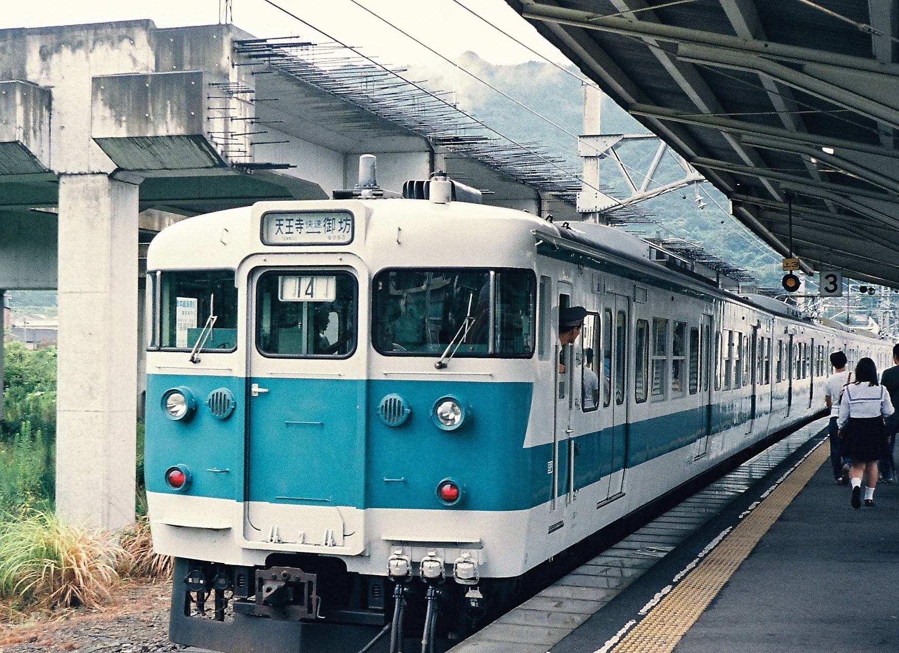 Kainan Station